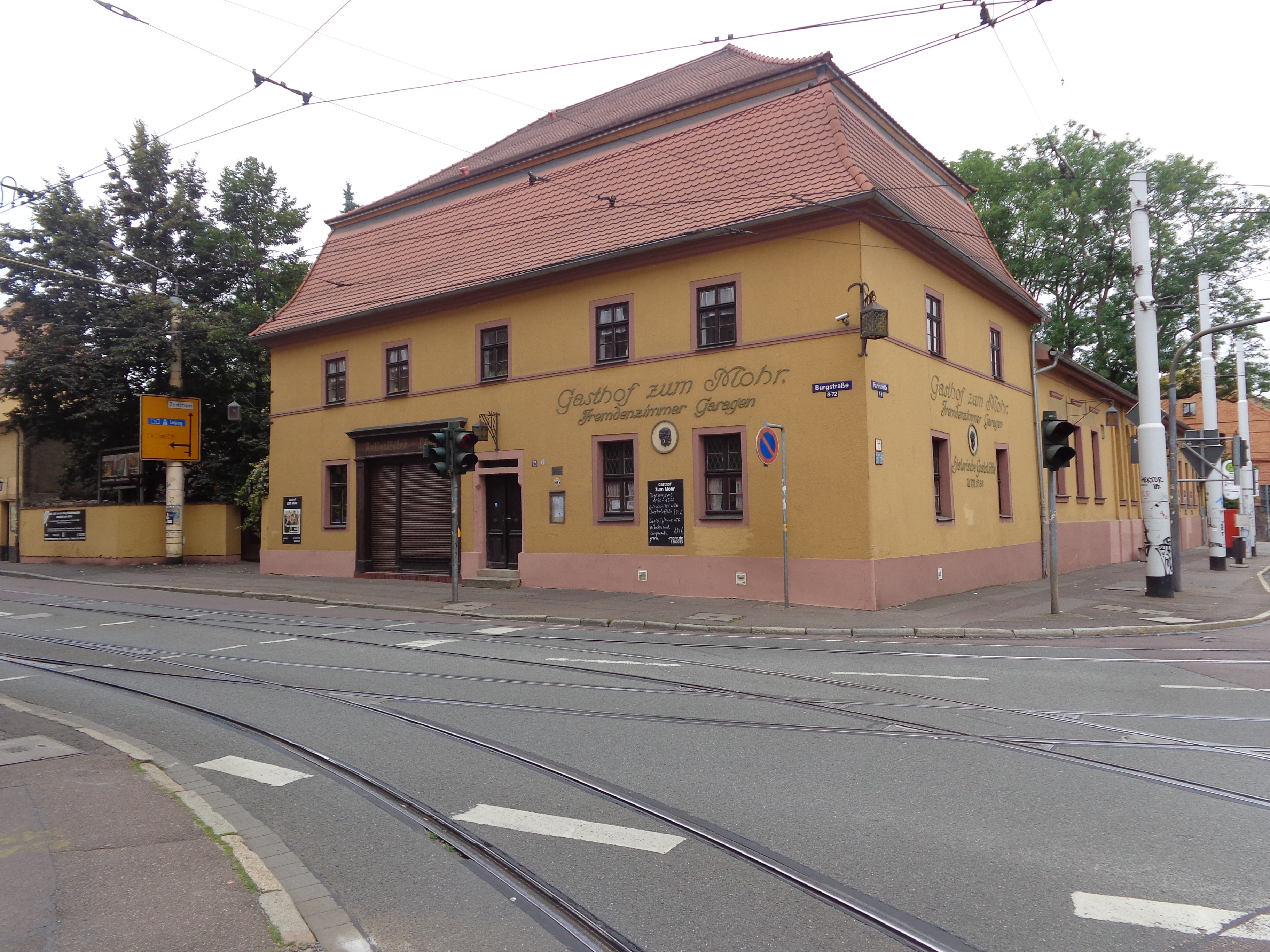 Restaurant zum Mohr in Halle (Saale), Burgstr. 72, in September 2016